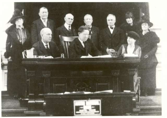 Texas Governor Signs the Texas Woman Suffrage Resolution with Minnie Fisher Cunningham and others looking on. Seated from left to right: Lt. Gov. W. A. Johnson, Governor Hobby, Minnie Fisher Cunningham. Standing from left to right:Mrs. T. A. Coleman, Senator Buchanan, Senator Smith, Senator McNantus, Sentor Dean, Mrs. D. H. Doom, Mrs. Edith Hinkle. February 5, 1919.